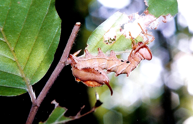 A caterpillar of Stauropus fagi, photographed near Budzyn (Poland), September 1995.